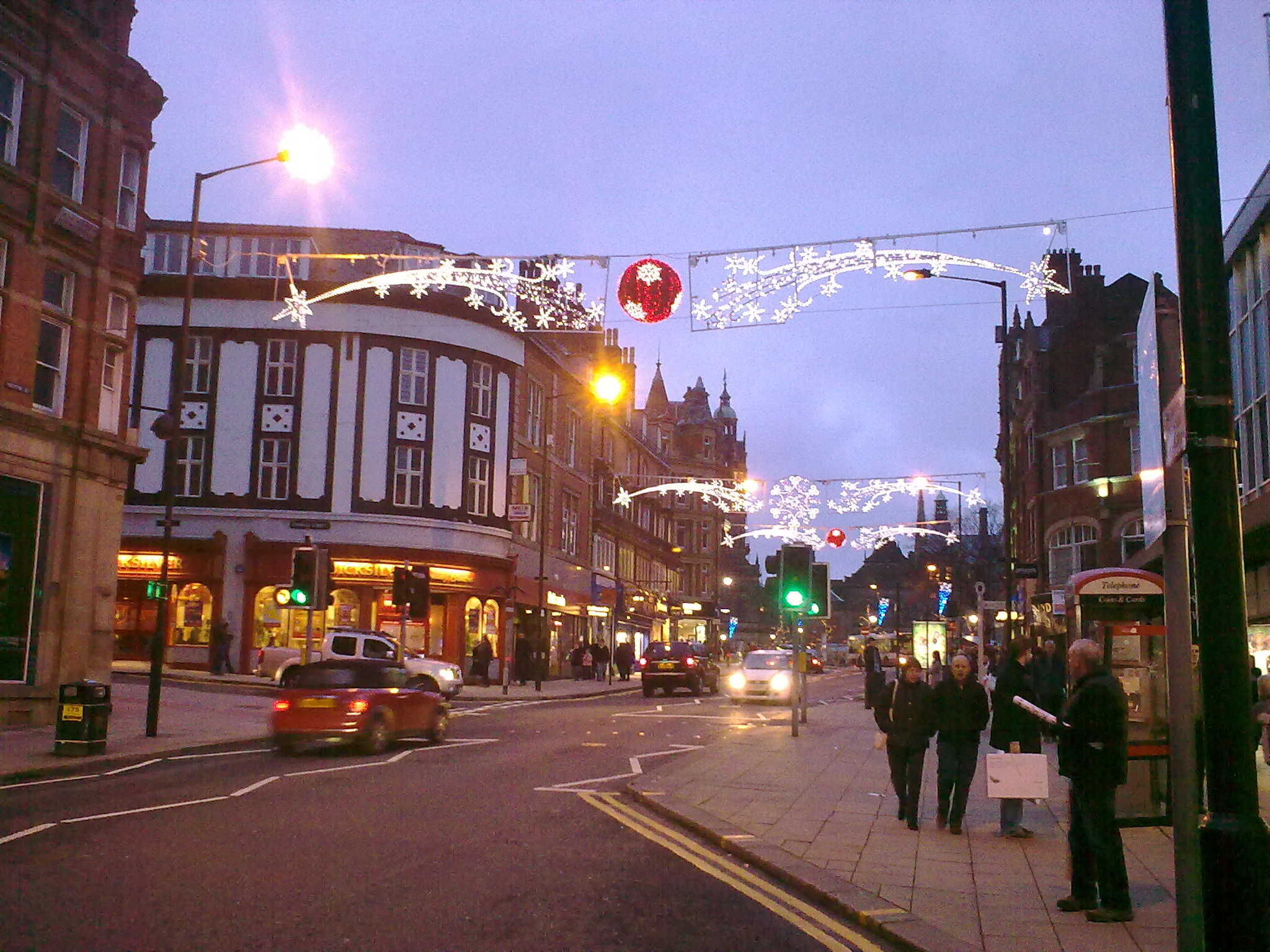 Pinstone Street, Sheffield, UK. This is a busy street connecting the Moor and Fargate shopping precincts.